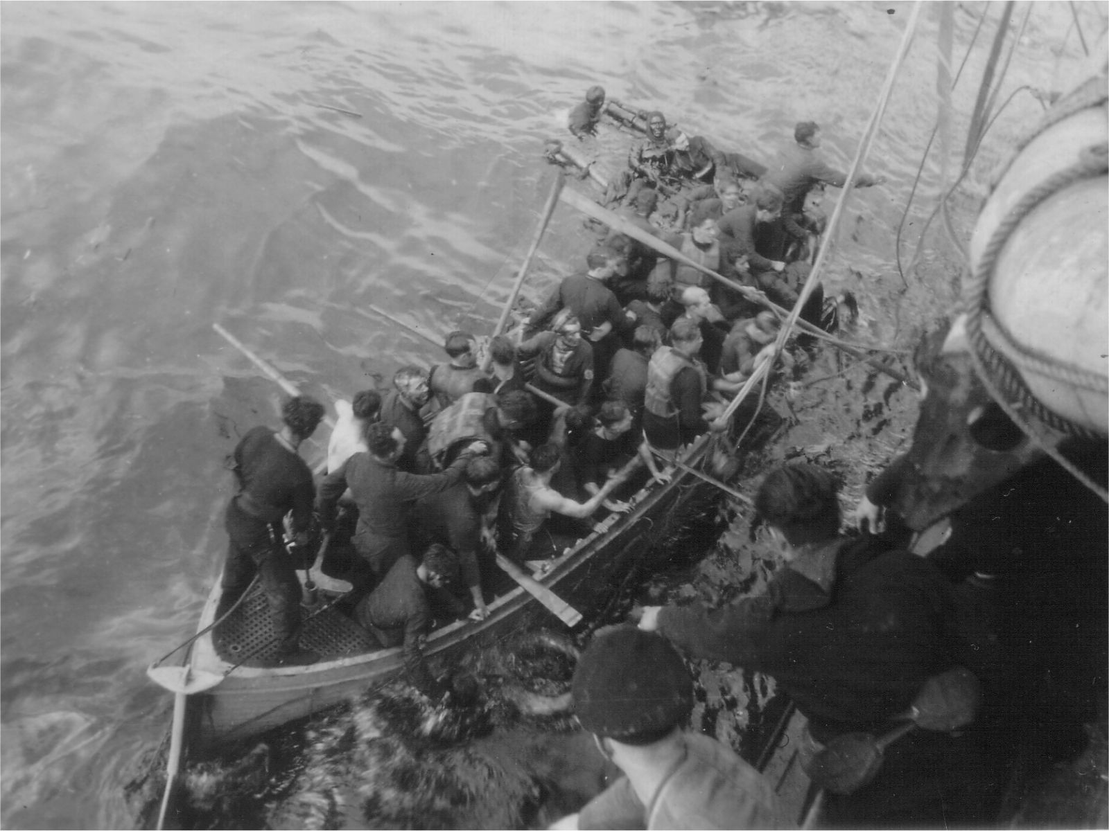 HMS Gurkha, Rescueing survivers by Hr.Ms.Isaac Sweers